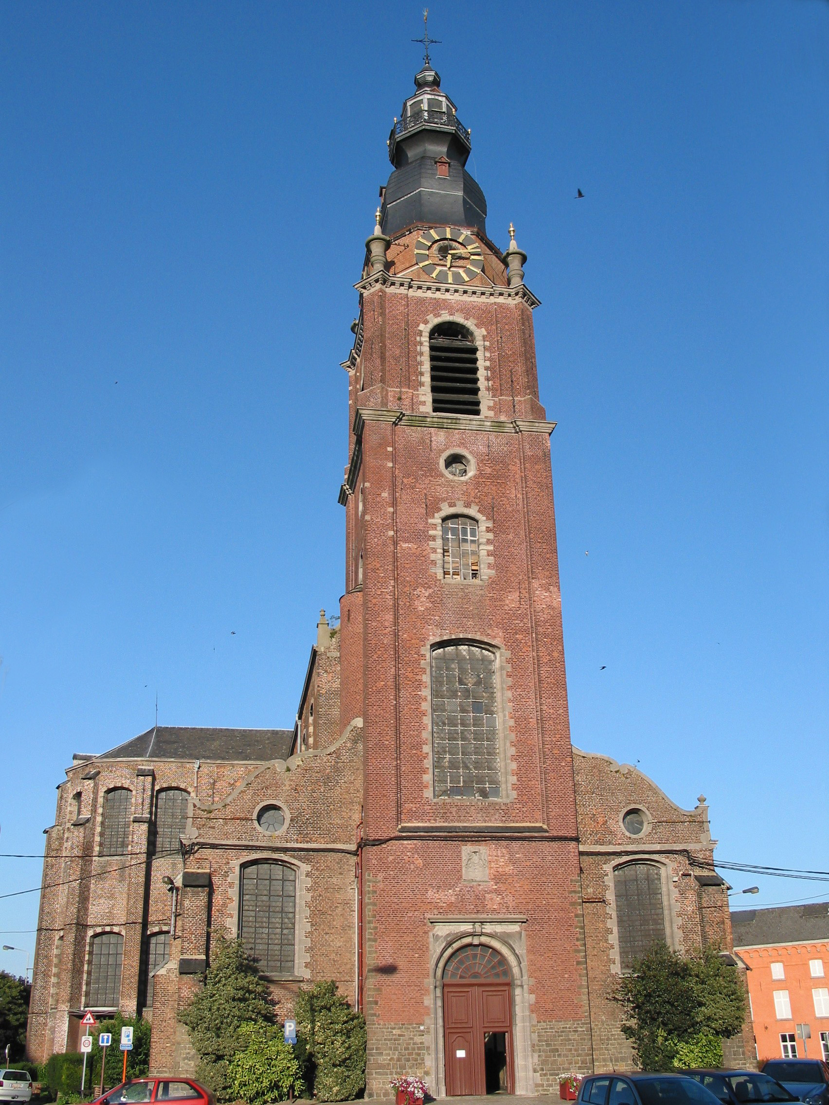 Leuze-en-Hainaut (Belgium), the St. Peter's Collegiate church (1745 - architect: Reverend Father Martin).